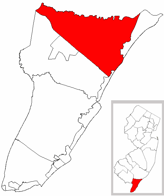 Map of Cape May County highlighting Upper Township